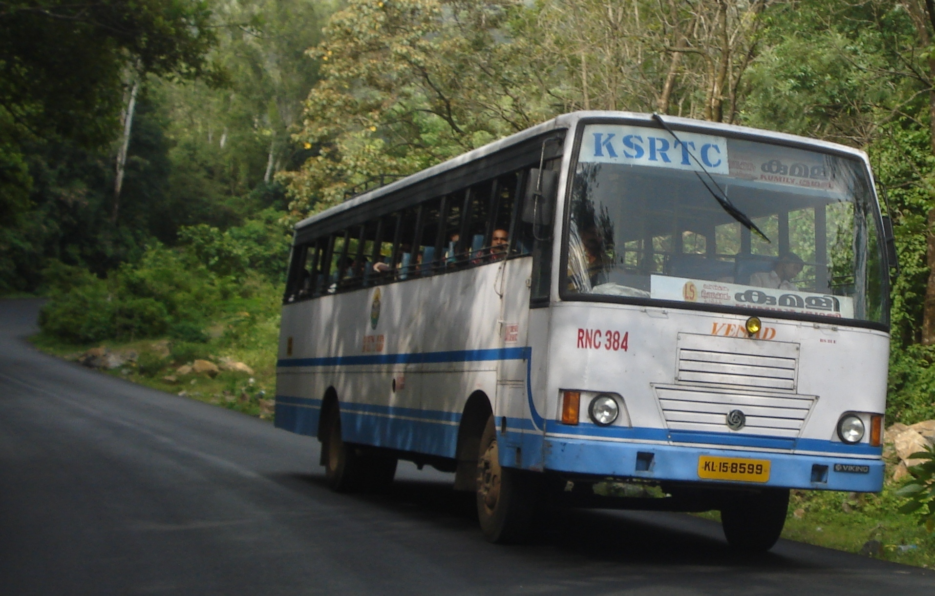 A Stage Carriage Bus of Kerala State Road Transport Corporation,a Public Sector Undertaking of Kerala State.A Bus to Kumily is seen in the picture.